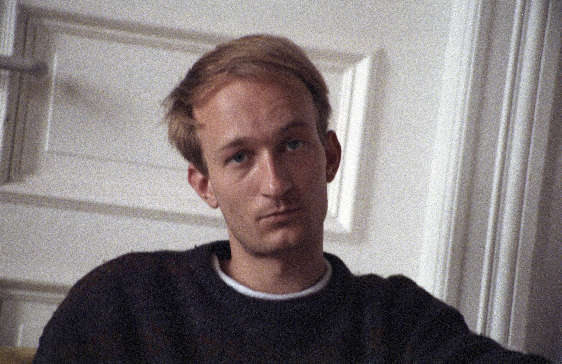 The photo shows Tobias Gruben, singer/songwriter and former frontman of the band "Die Erde". The photo was taken by Tobias' brother Sebastian in a relaxed, private situation.